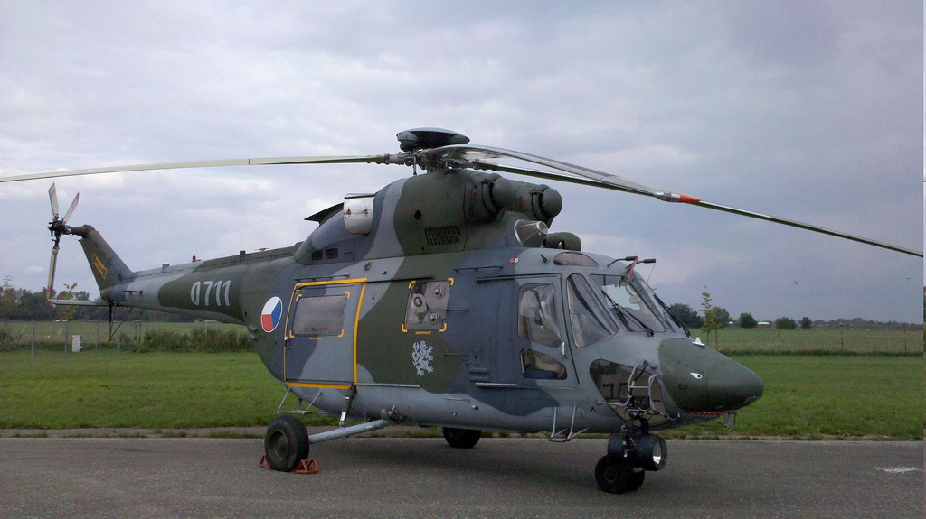 PZL W-3A Sokol Helicopter. Czech Air Force.